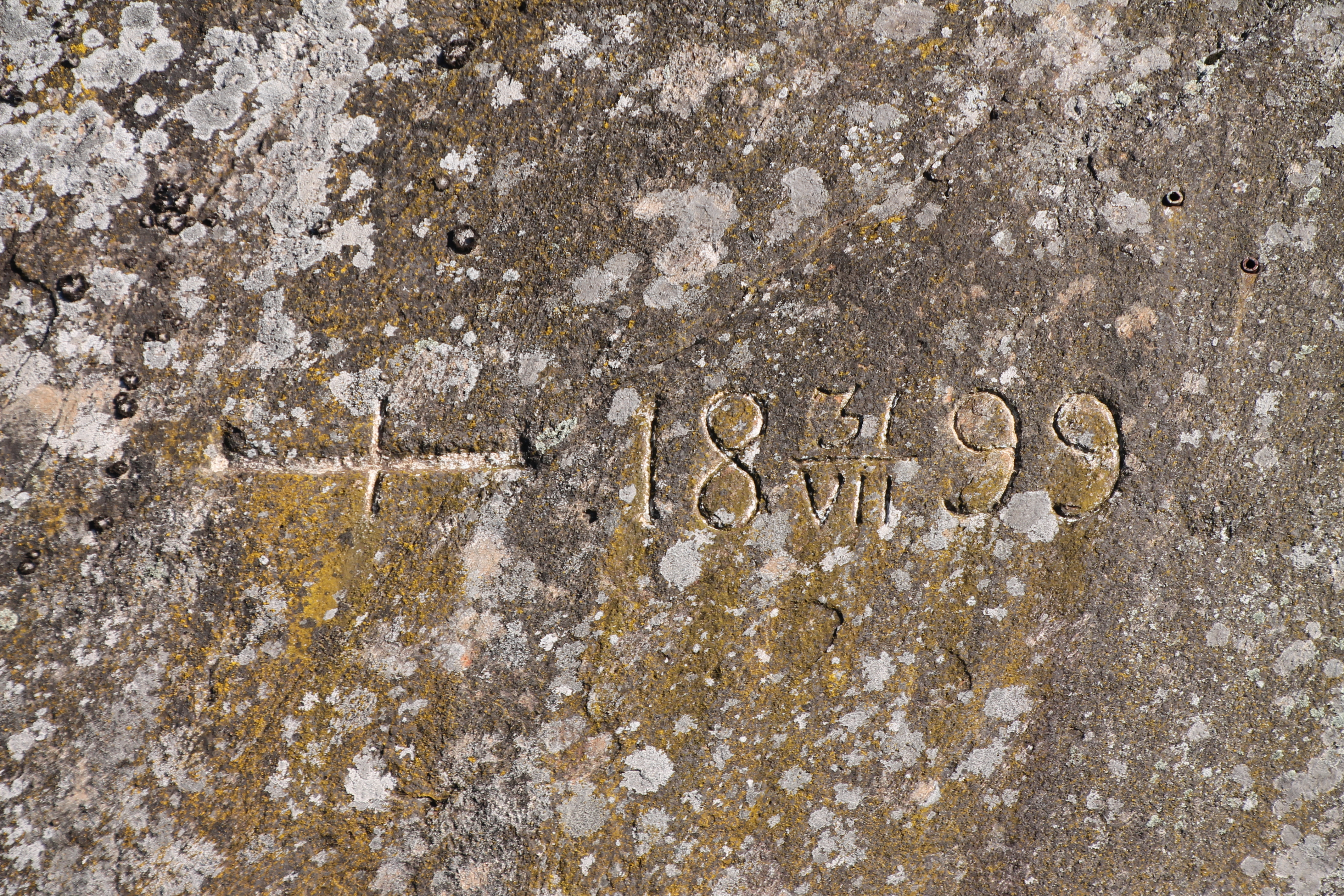 Water height (1899) at Olavinlinna.